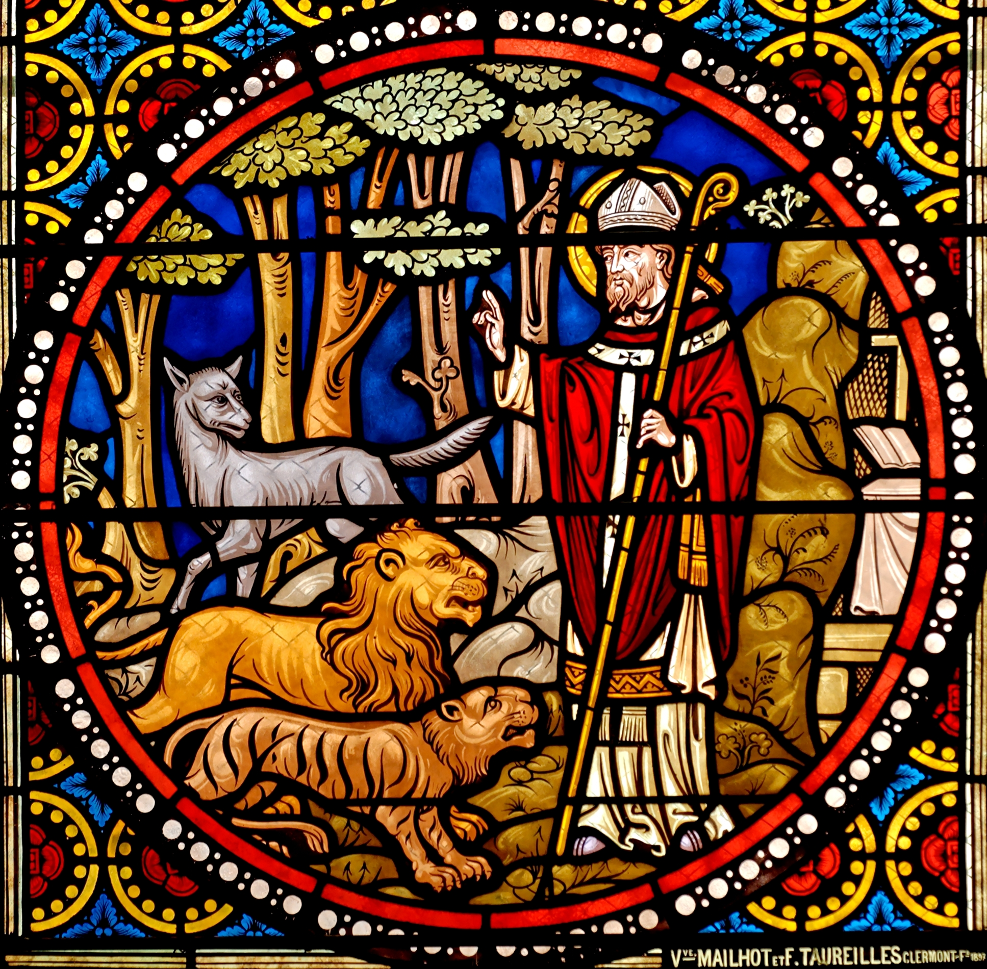 Scenes from the life of saint Austremonius: The saint amongst the beasts of the wild. Middle panel of a stained glass window from an apsidal chapel of the church Saint-Austremonius of Issoire (Puy-de-Dôme, Auvergne, France).See also: The saint’s martyrdom, top panel; The saint’s blessings, bottom panel.